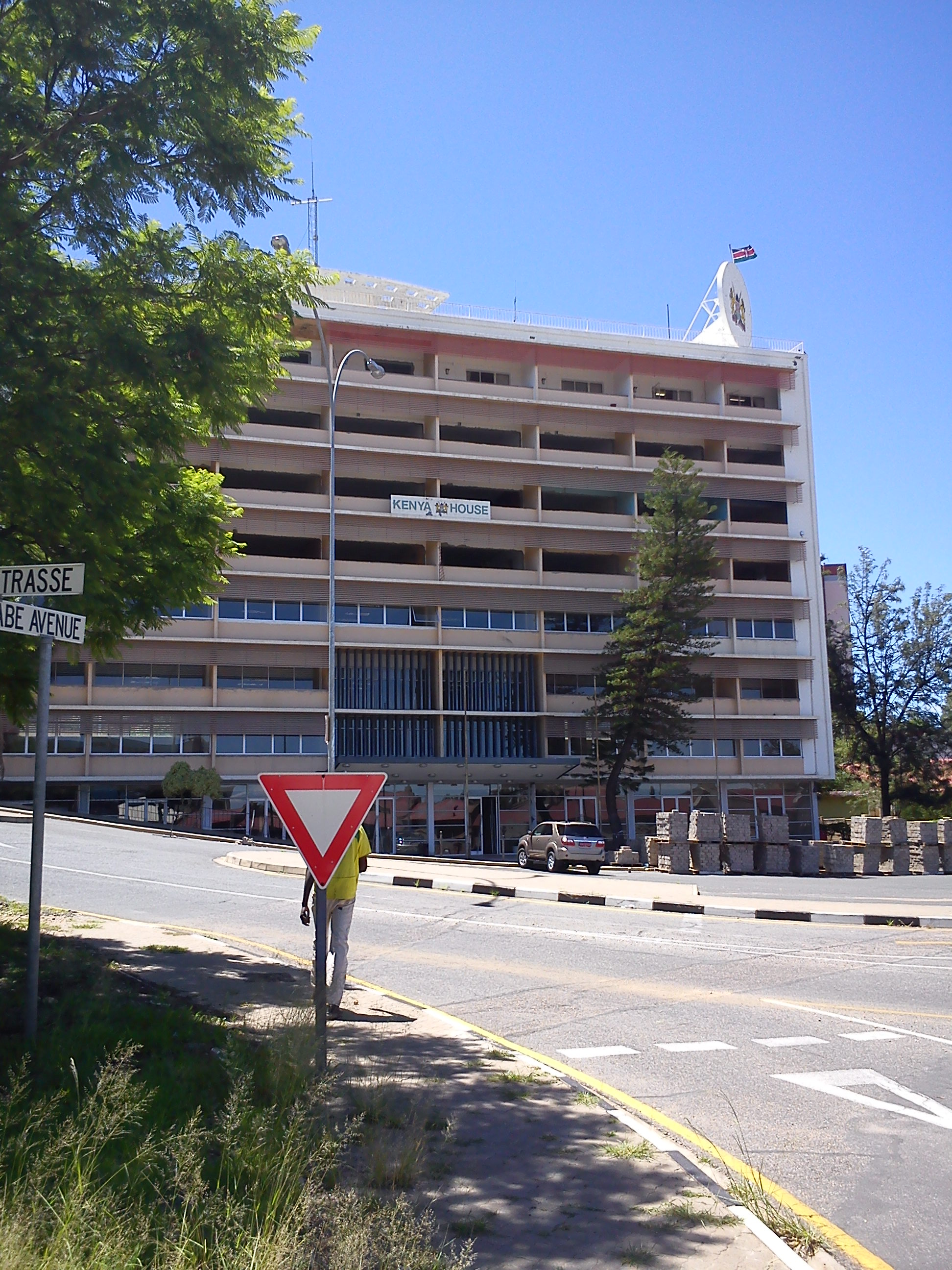 KE in NA